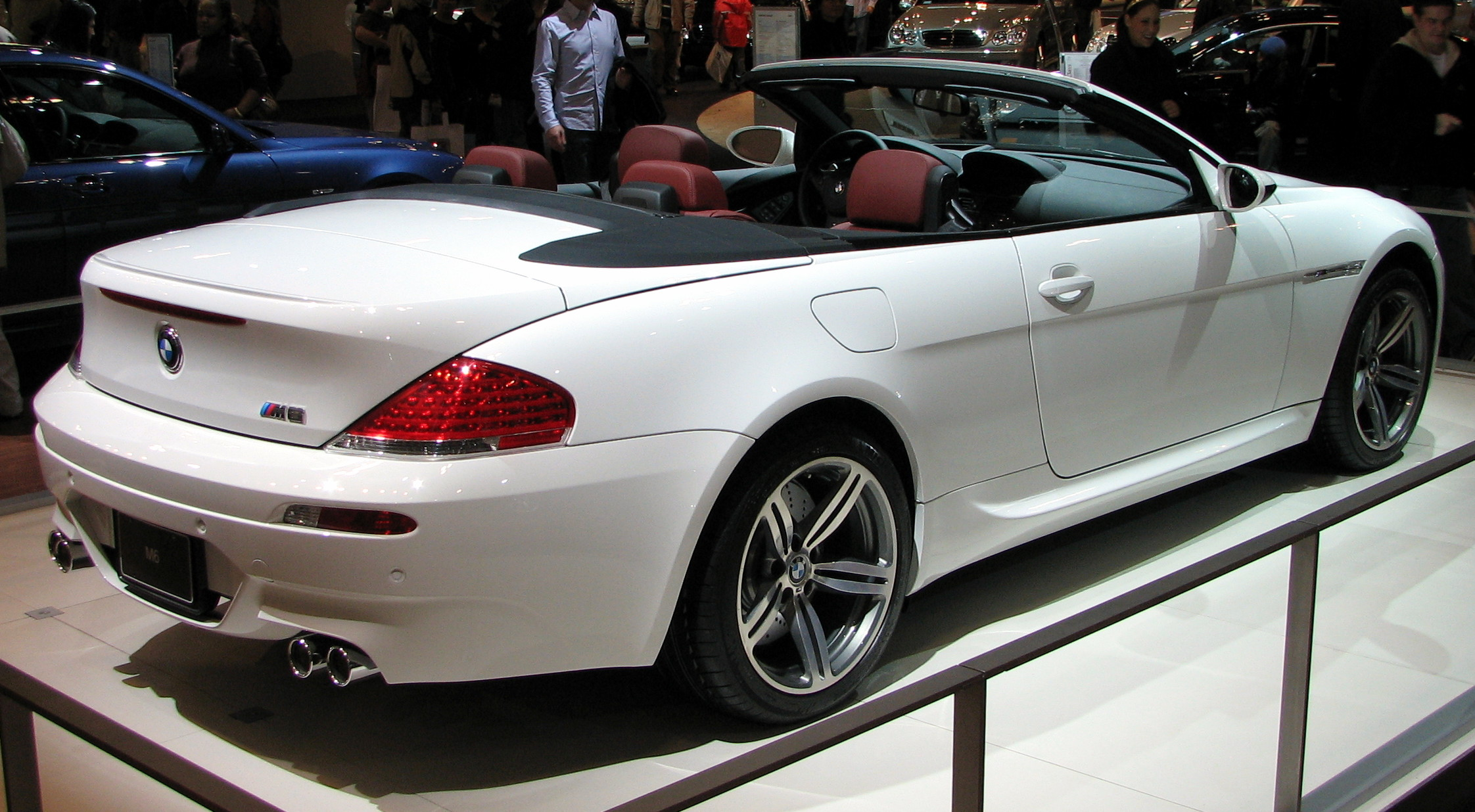 2007 BMW M6 Convertible E64 snow white2007 BMW M6